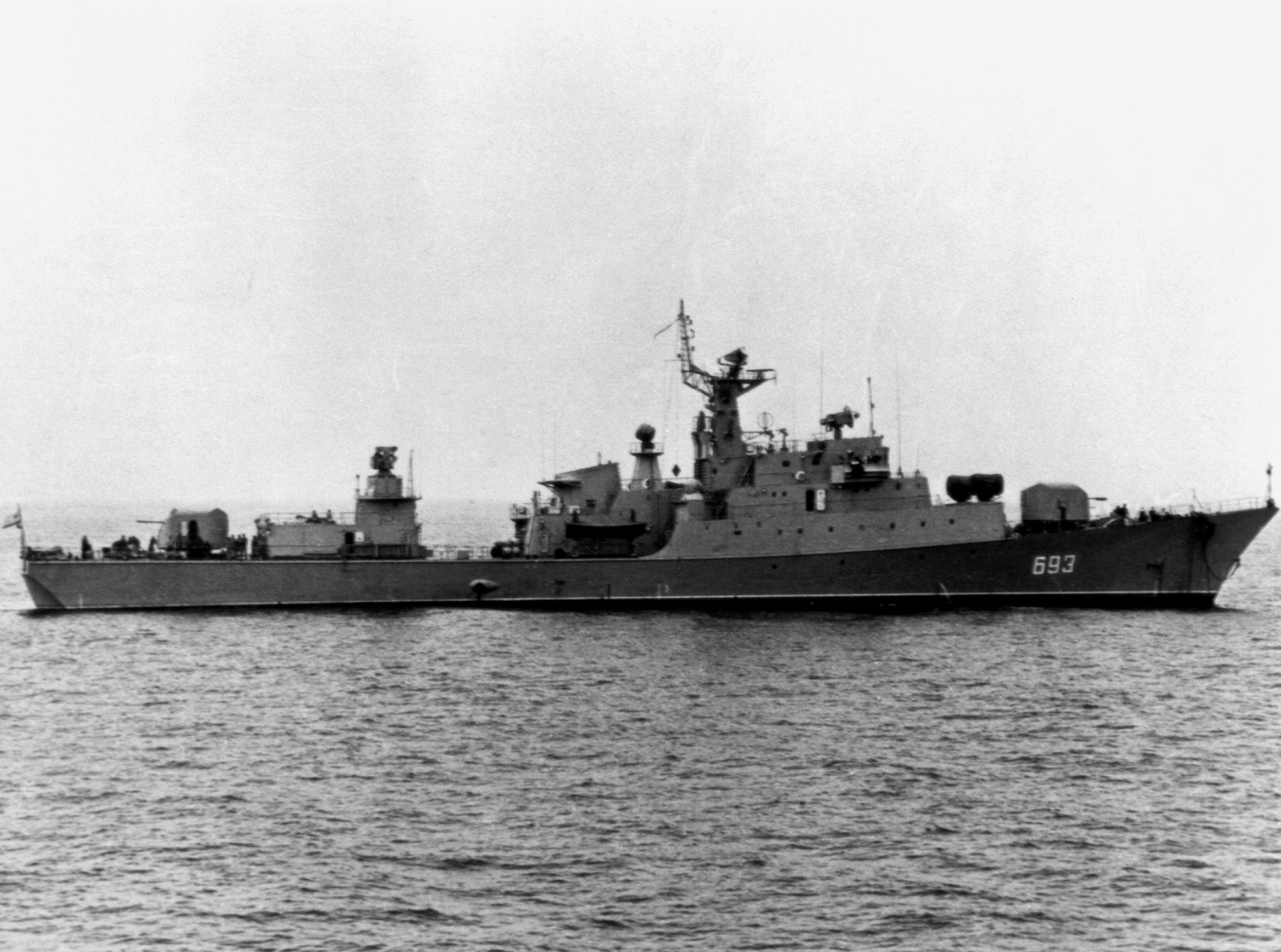 Aerial starboard beam view of a Soviet Koni Class frigate. This ship is inferd from the number and date of shot that it is the Soviet frigate (SKR) Delifin.